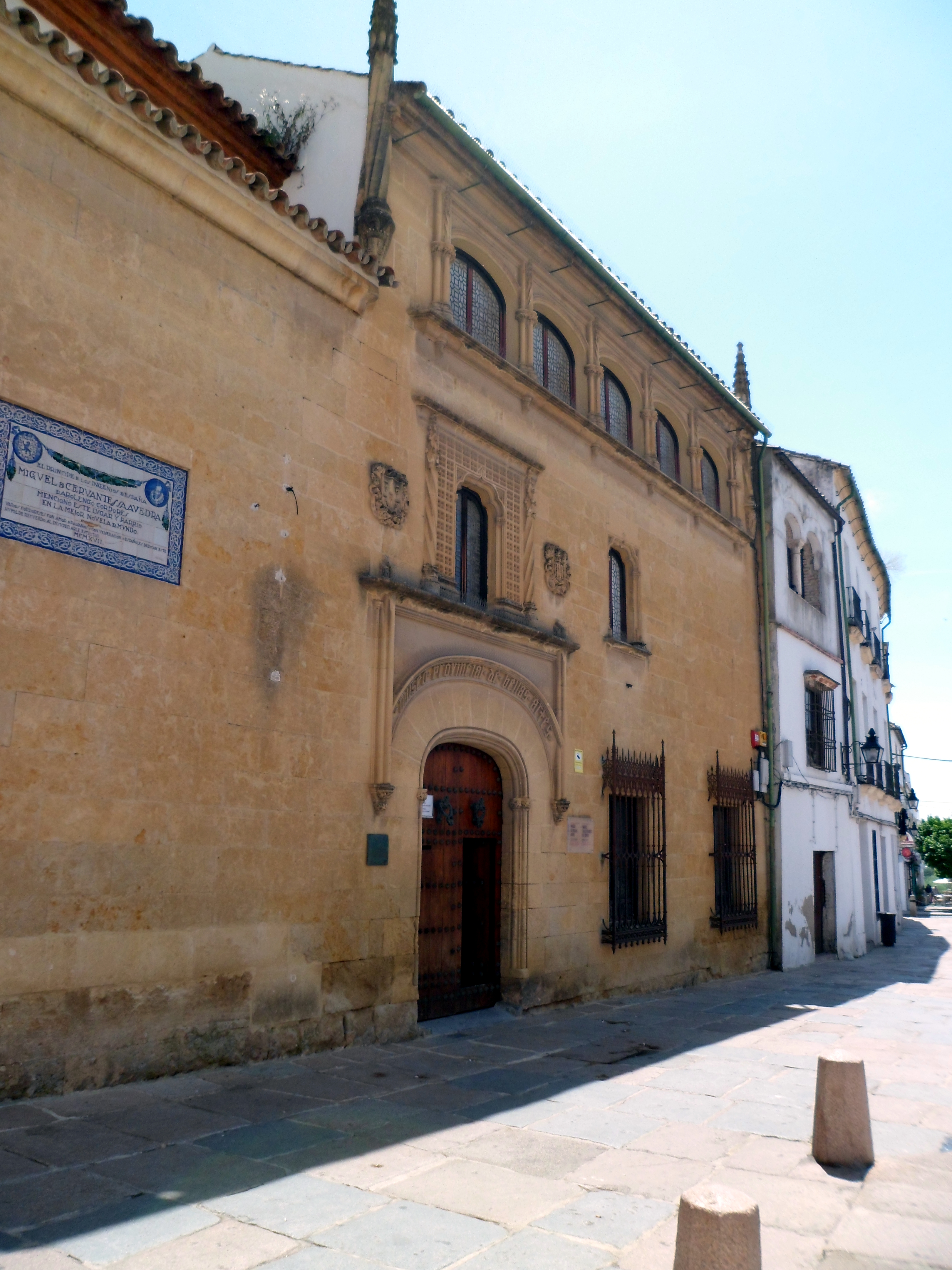 Fine Arts Museum of Córdoba, Spain. Museo de Bellas Artes de Córdoba y Museo Julio Romero de Torres (Inventory)Native nameMuseo de Bellas Artes de CórdobaLocationCórdoba, (Spain)Coordinates37° 52′ 52.69″ N, 4° 46′ 28.8″ W Established1862Web pageMBACOAuthority control : Q6033943 VIAF: 131559099 ISNI: 0000 0001 1955 8475 LCCN: nr95024195 BIC: RI-51-0001348 GND: 5120261-X WorldCat institution QS:P195,Q6033943